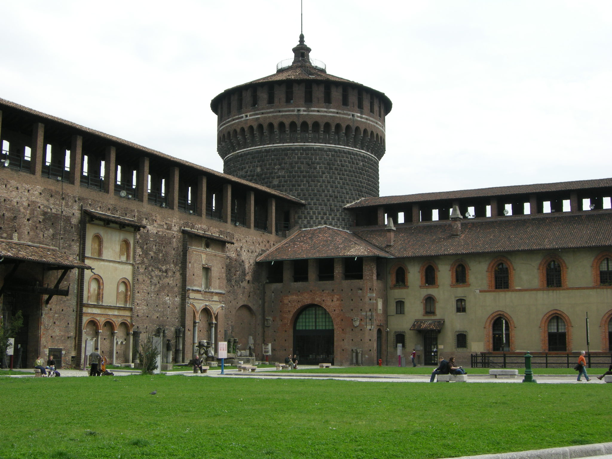 Castello Sforzesco (Milan) - Round tower